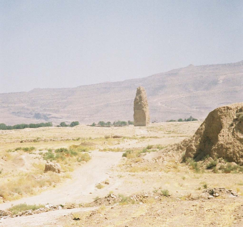 Tower of Gur — circular Sassanid town's center, near by Firuzabad